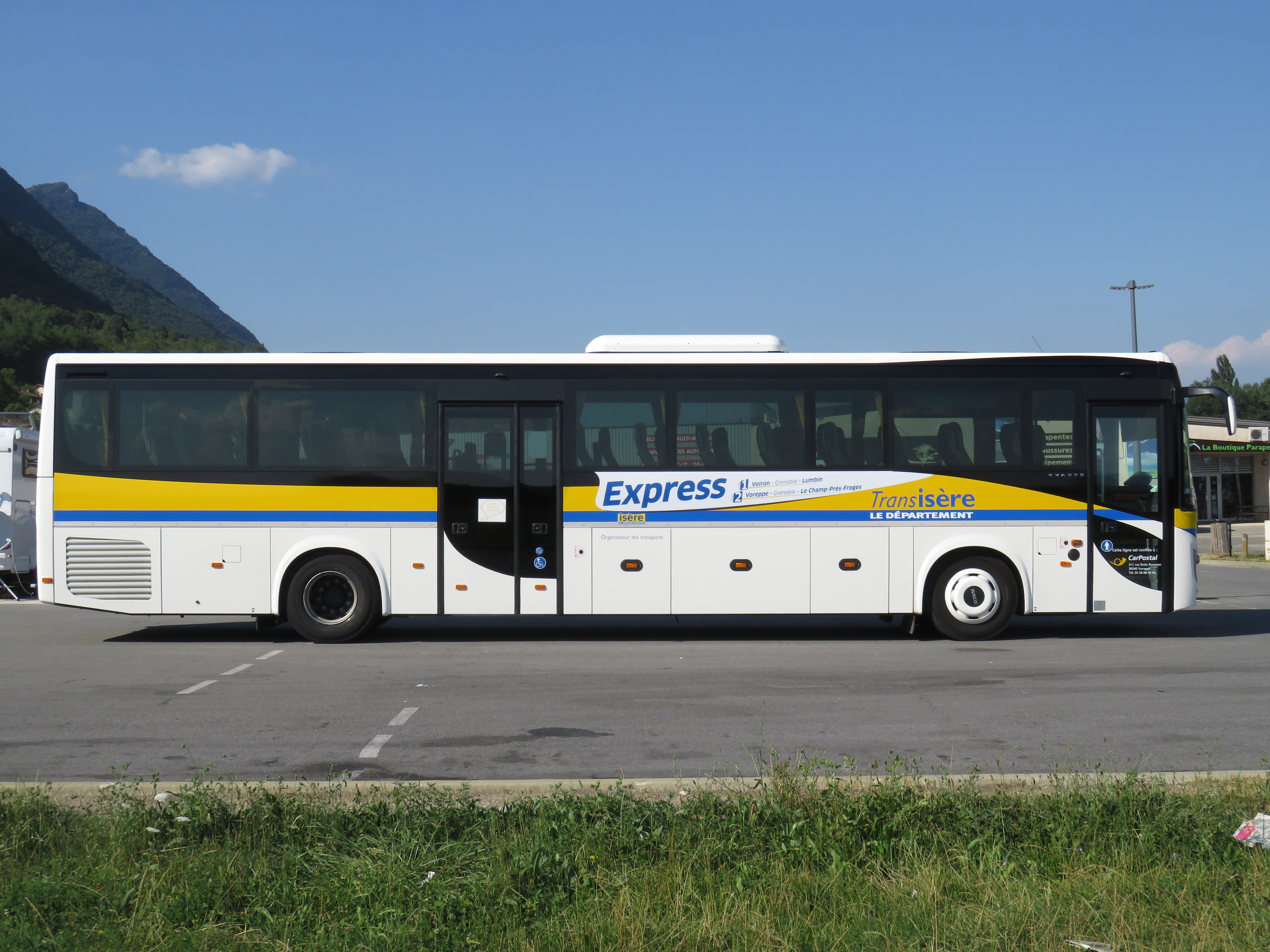 An Iveco Evadys (n°8288 of CarPostal Interurbain-Isère) parked in the Chemin des Longs Prés (Lumbin, France) on July 9, 2018.